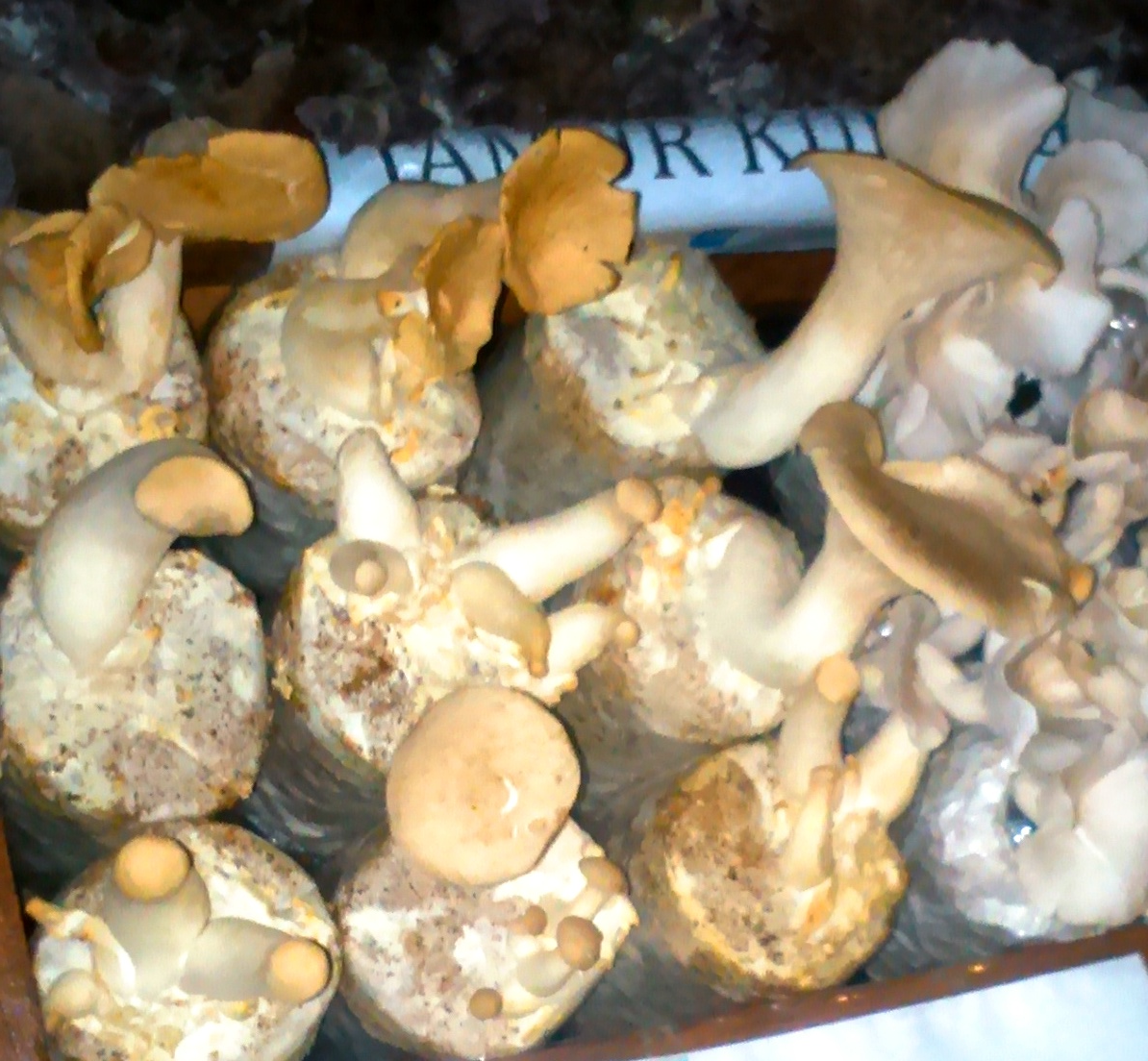 King oyster on display at a mushroom oriented restaurant in Yogyakarta